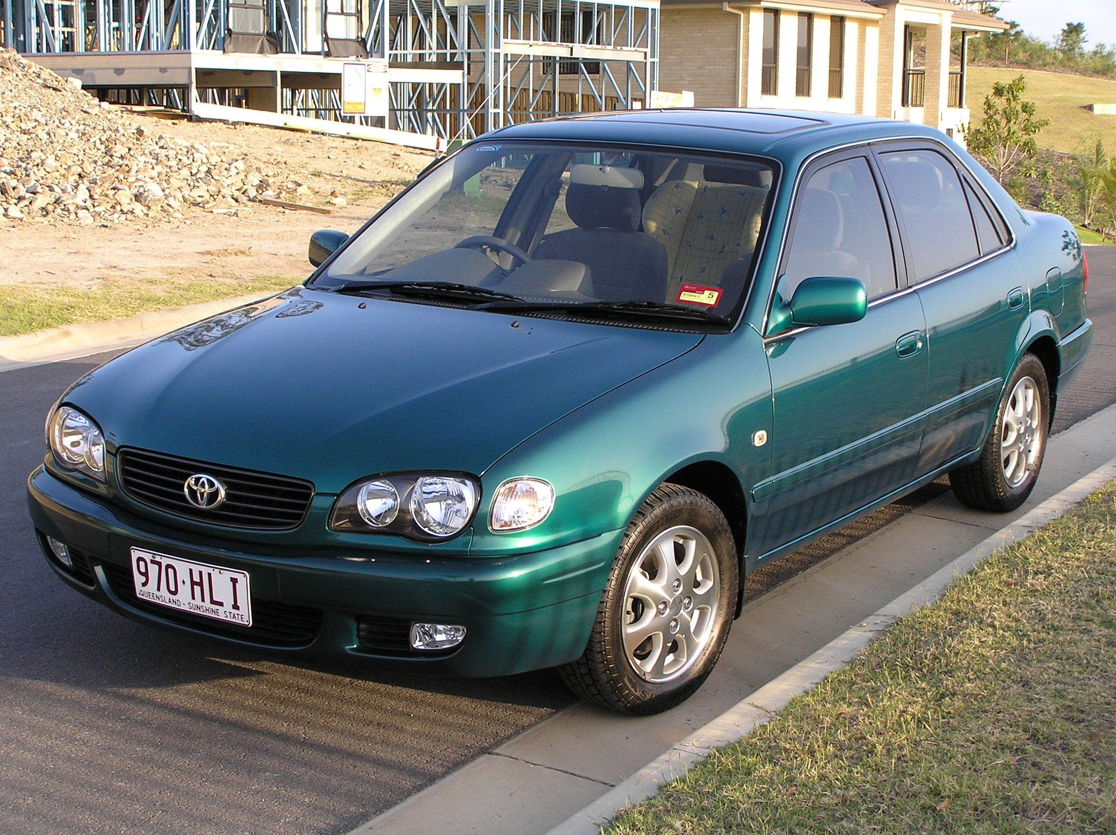 1999 Toyota Corolla (AE112R) Ultima sedan. Photographed in Queensland, Australia.